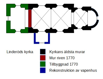 Plan of Linderöd church